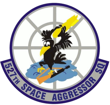 Emblem of the 527th Space Aggressor Squadron of the United States Air Force. Initially approved on 11 Jan 1943; modified on 5 Jan 2001.